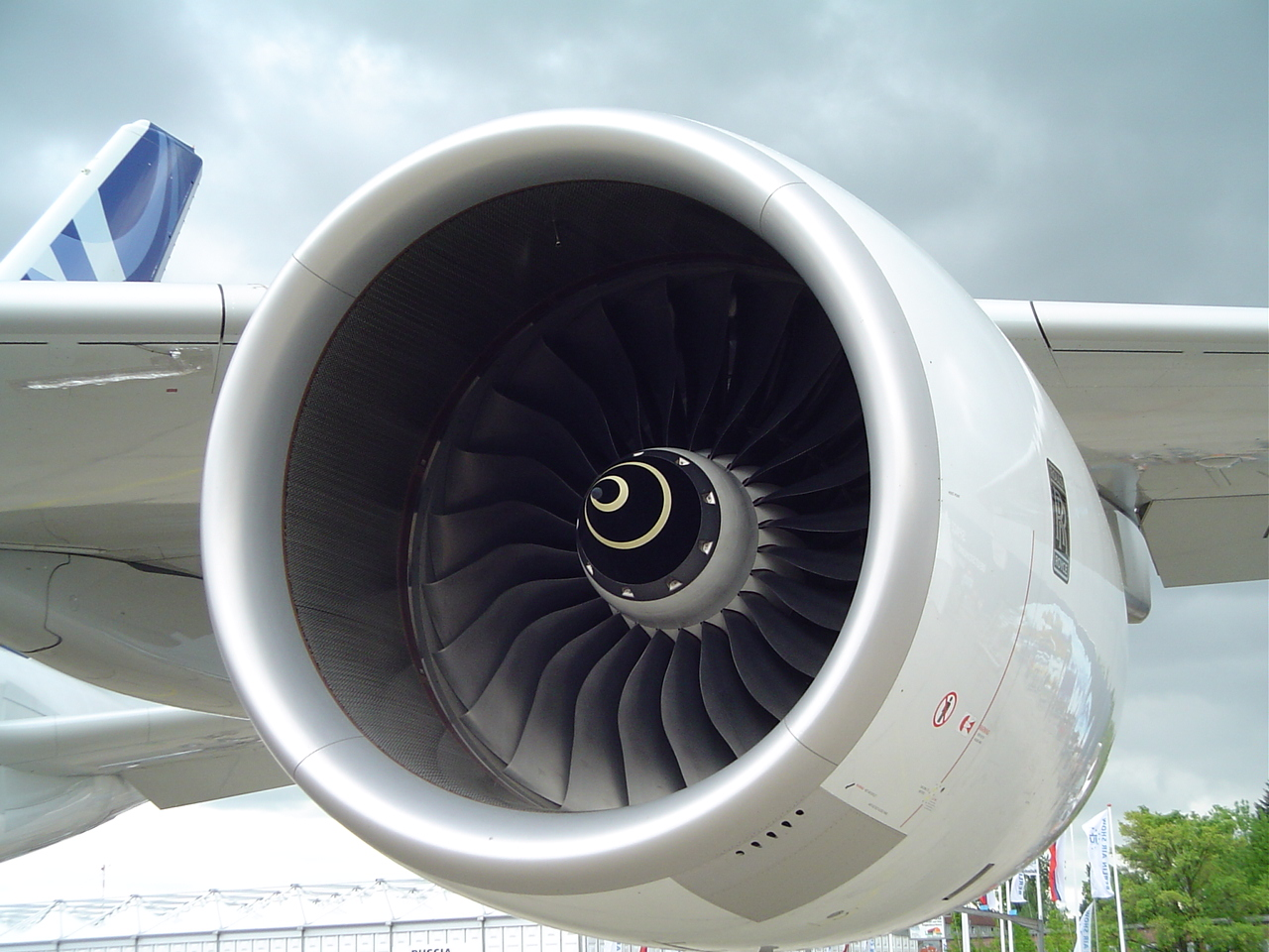 Close up view of a Rolls-Royce Trent 900 on an Airbus A380 -ILA 2006